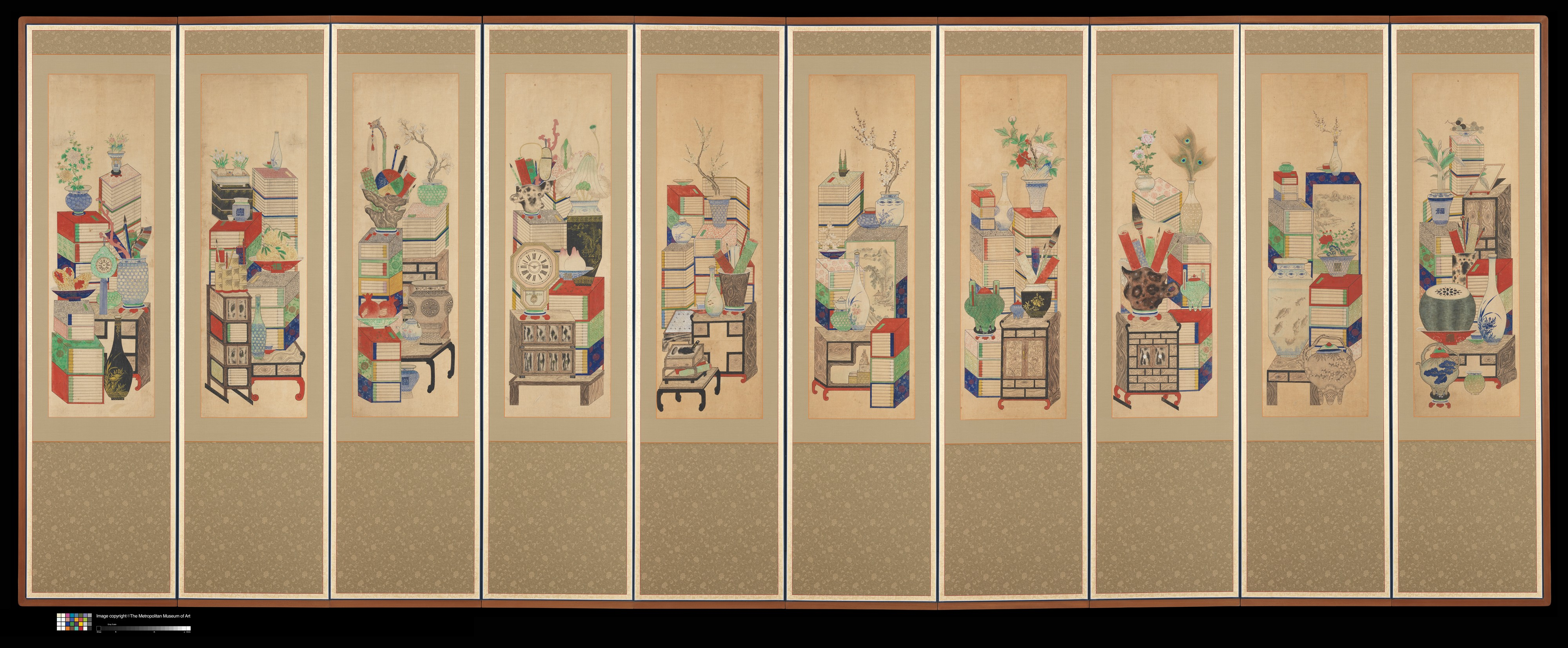 Korea; Folding screen; Screens